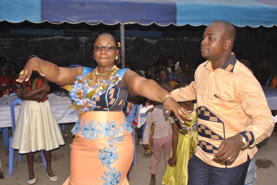 This is an image of Cultural Fashion or Adornment from Côte d'Ivoire